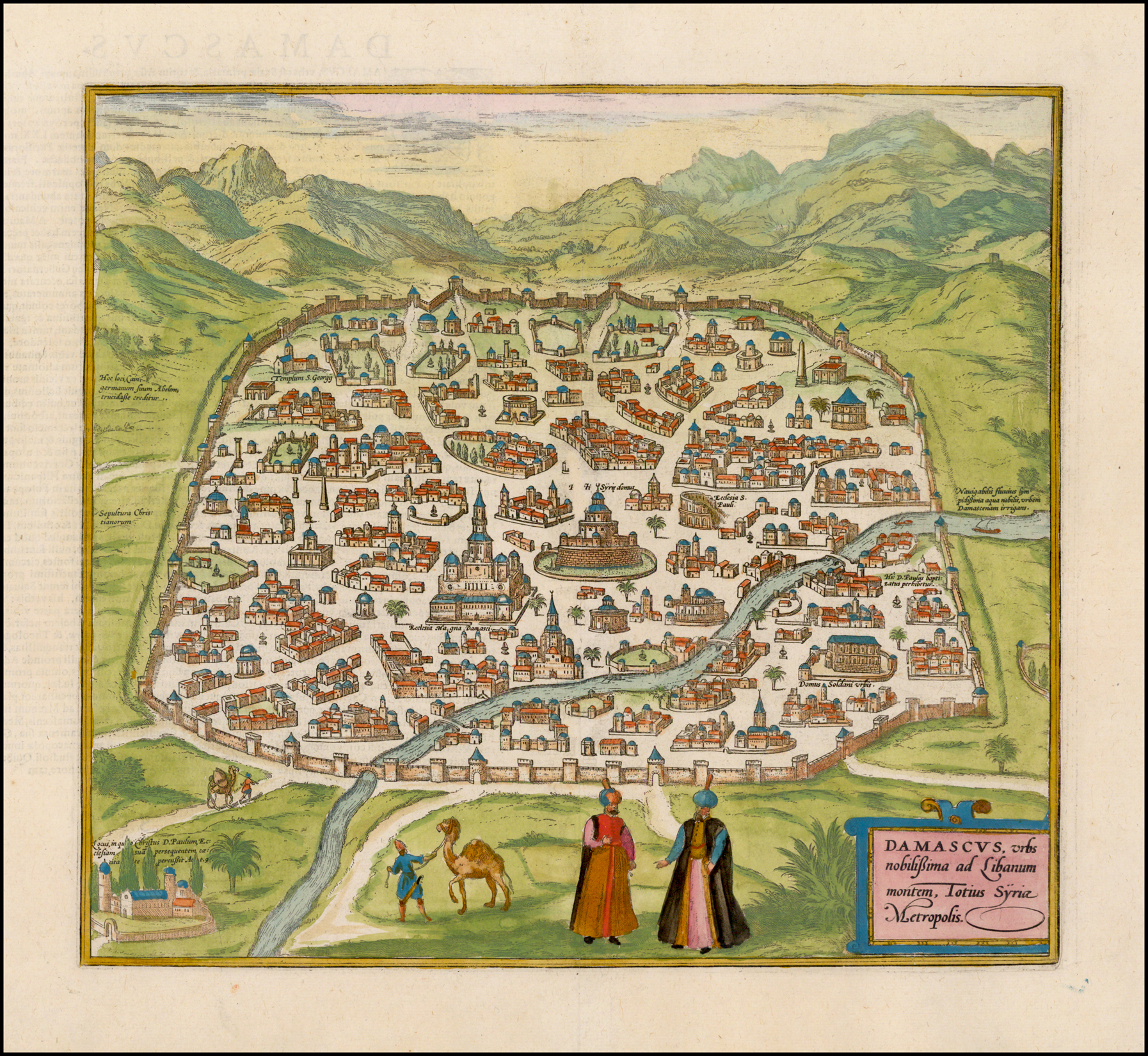 perspective map of Medieval Damascus, capital of Syria